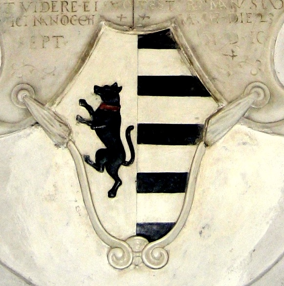 Coat of arms of Bartoly House from Montevarchi. Misericordia church, Montevarchi